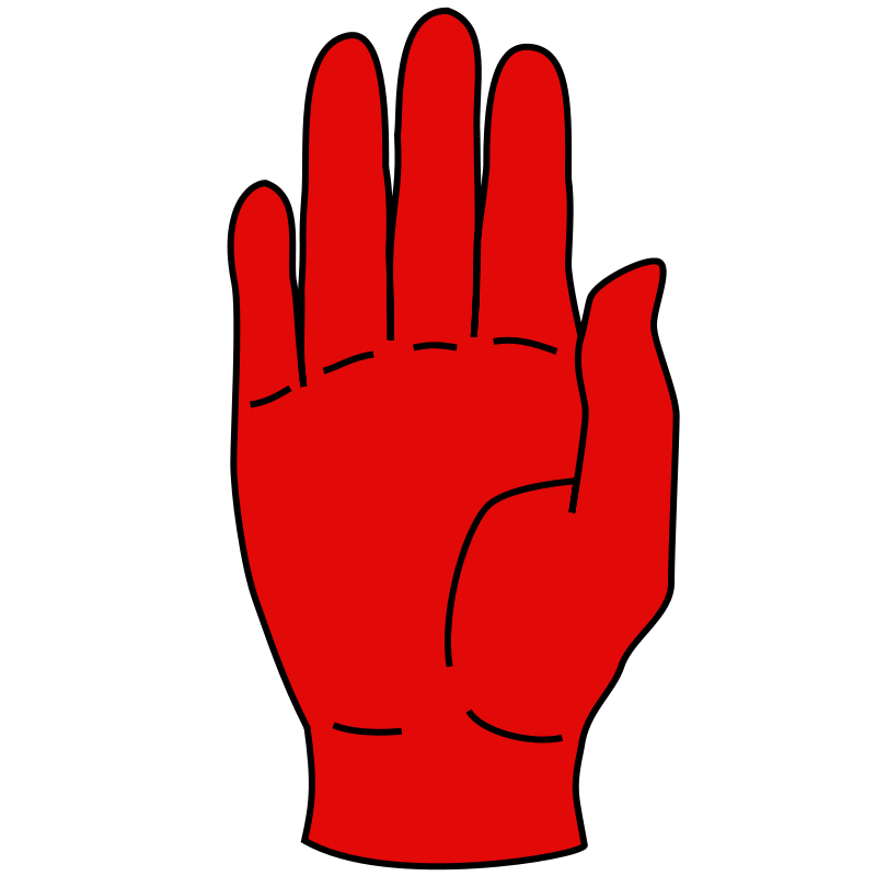 Red Hand of Ulster, dexter (right) hand version, as used today in Ulster (Northern Ireland) by Protestants as a political symbol. The sinister (left hand) version is used by baronets.